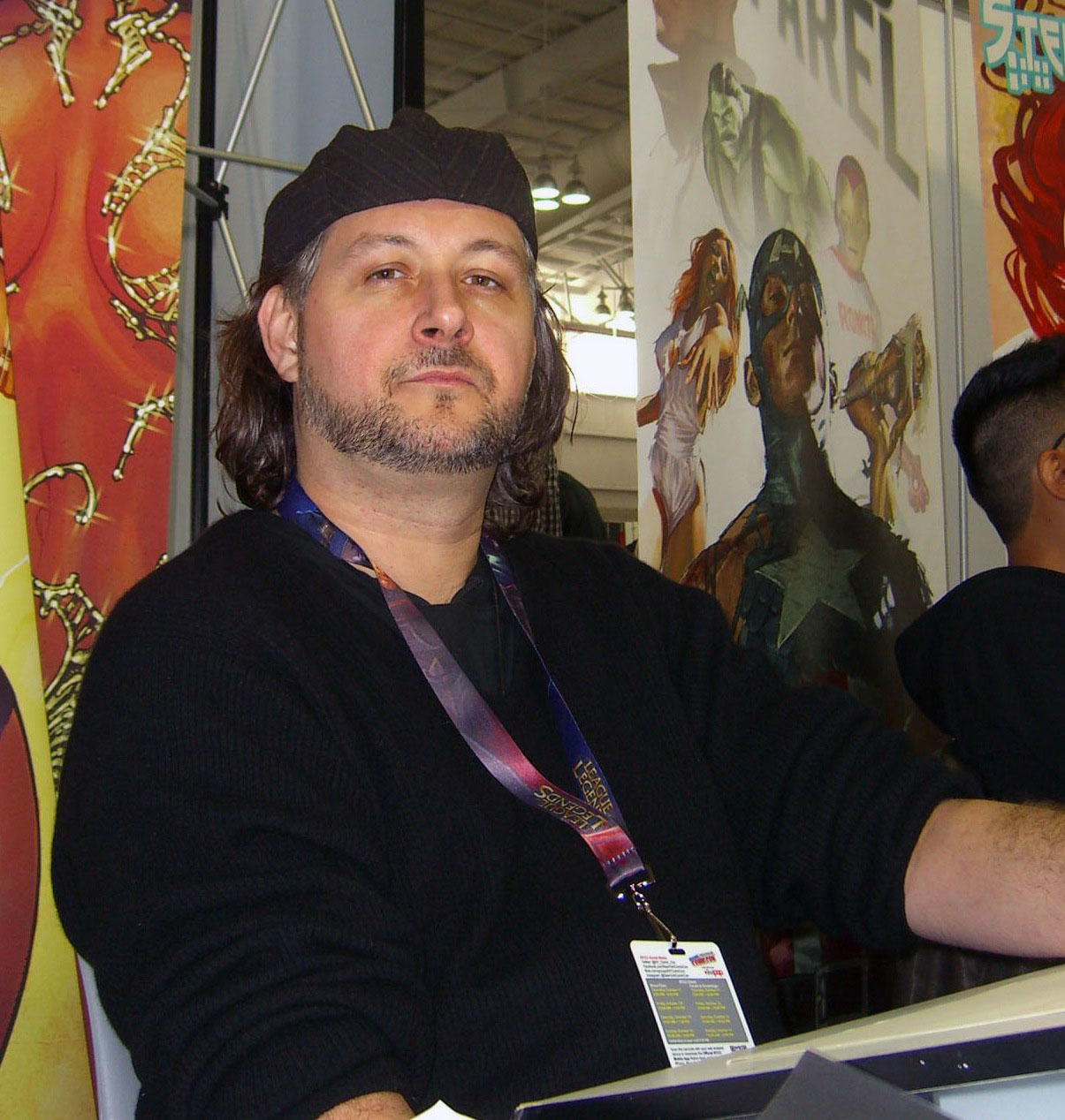 Comics creator Stephane Roux on Day 2 of the 2012 New York Comic Con, Friday October 12, 2012 at the Jacob K. Javits Convention Center in Manhattan. This photo was created by Luigi Novi. It is not in the public domain, and use of this file outside of the licensing terms is a copyright violation.